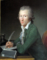 Portrait of a seated gentleman from 1785